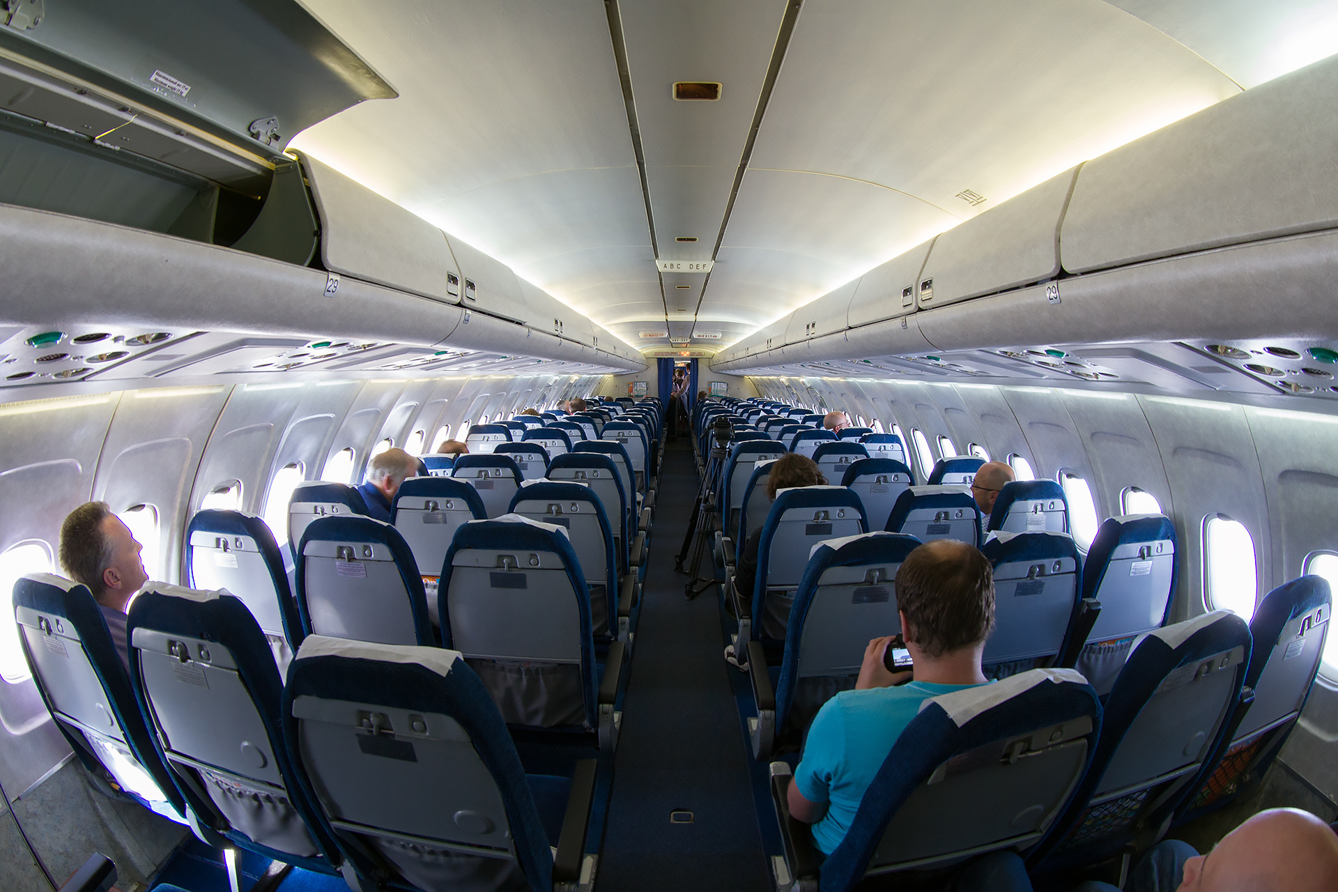 Passenger cabin of Belavia Tupolev Tu-154M